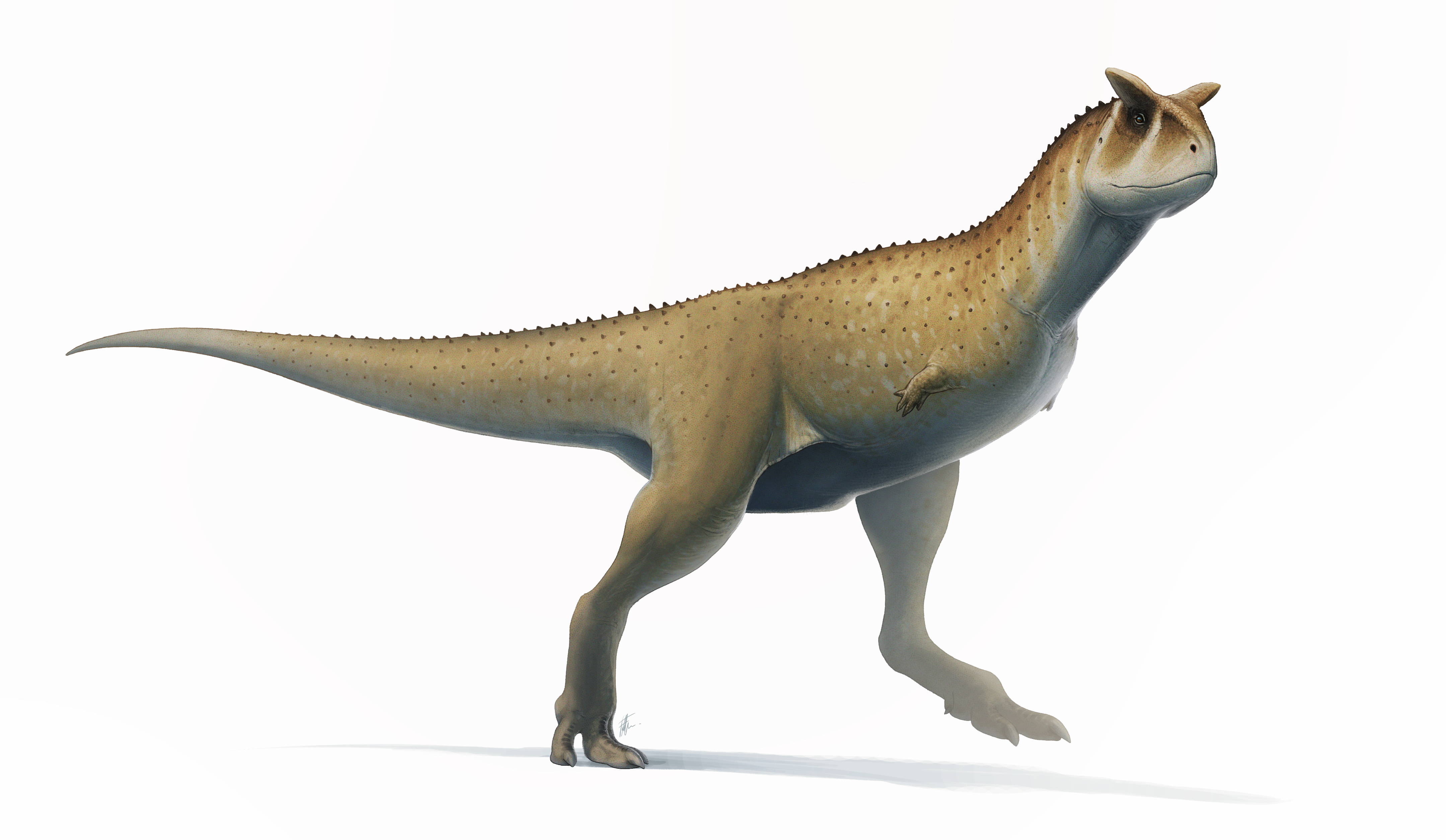 Illustration of Carnotaurus